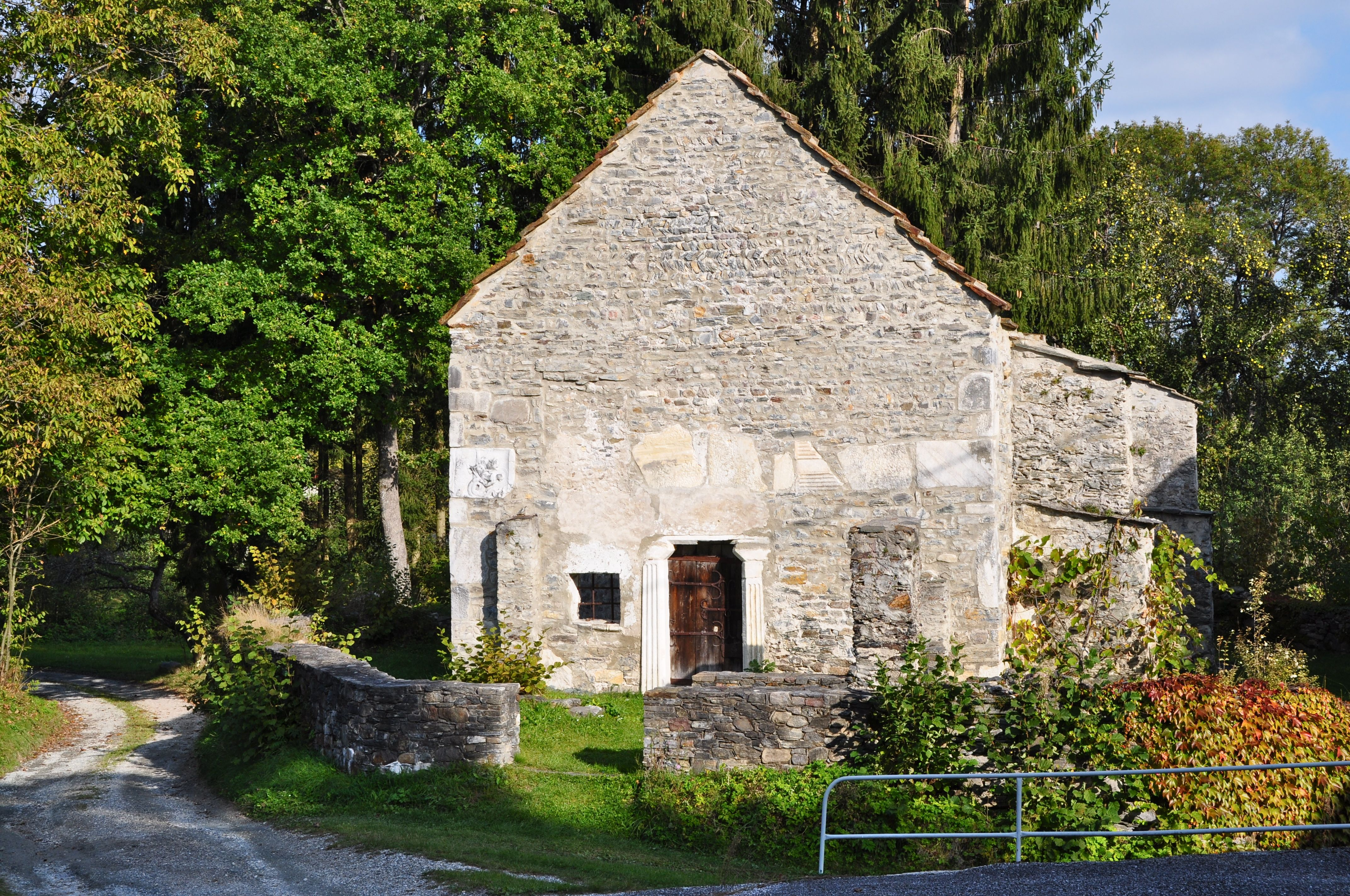 Church ruin Holy Stephen at Sankt Stefan, municipality Feldkirchen, district Feldkirchen, Carinthia, Austria with some herring-bone masonry in the higher part of the front wall